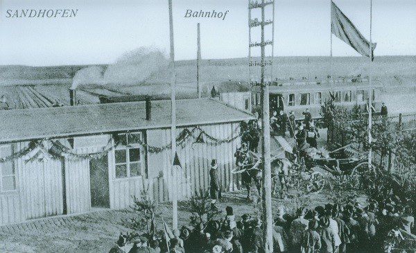 Visit of Grand-Duchess Luise of Baden in Sandhofen. First provisional Station building. Grand-duchial Salon Coach.